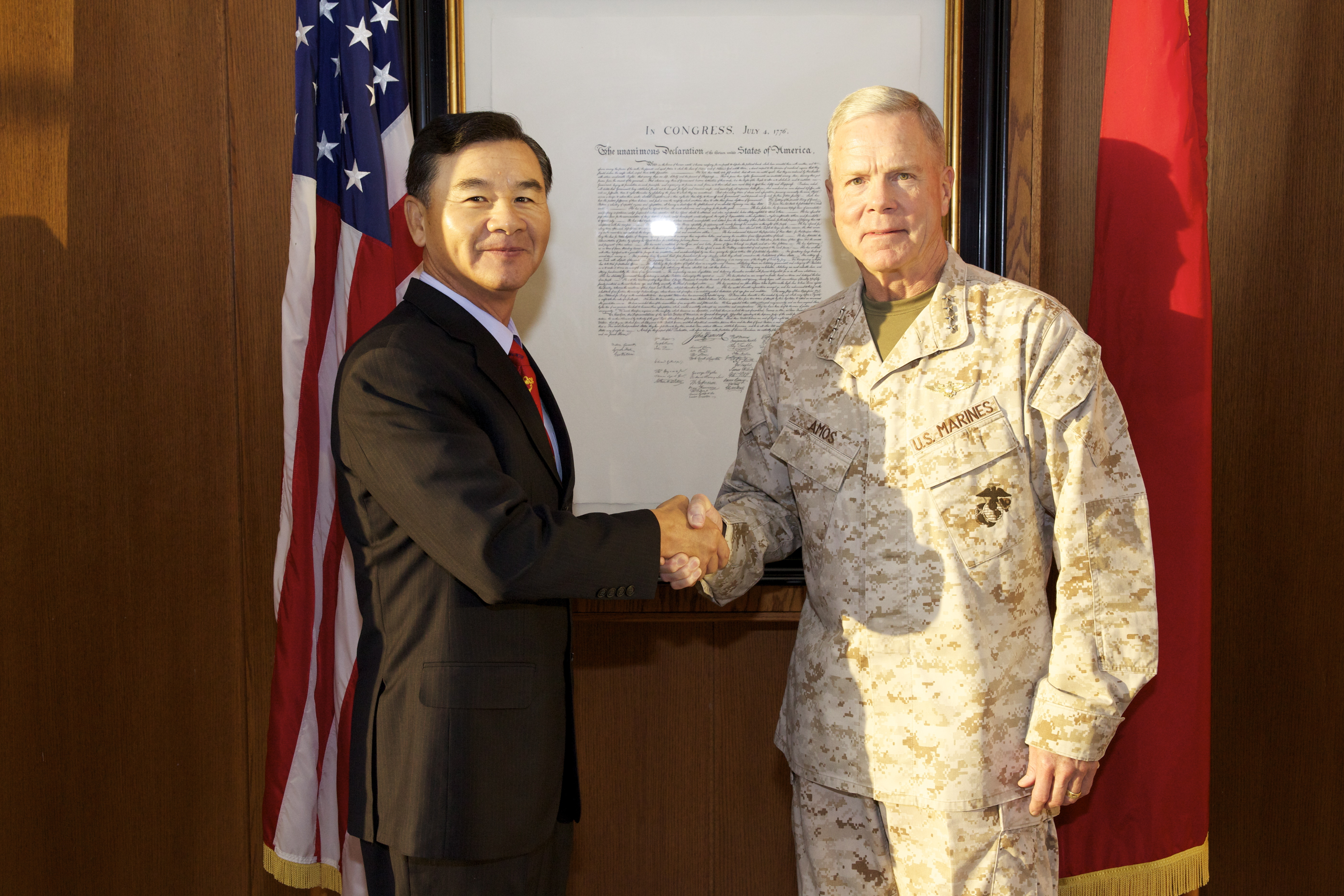 U.S. Marine Corps Gen. James F. Amos, right, commandant of the Marine Corps, poses for a photo with the Taiwanese Marine Corps Lt. Gen. Pan Jinlong, commandant of the Taiwan Marine Corps, during a visit to the Gen. Alfred A. Gray Research Center about Marine Corps Base Quantico, Va., Sept. 28, 2012.